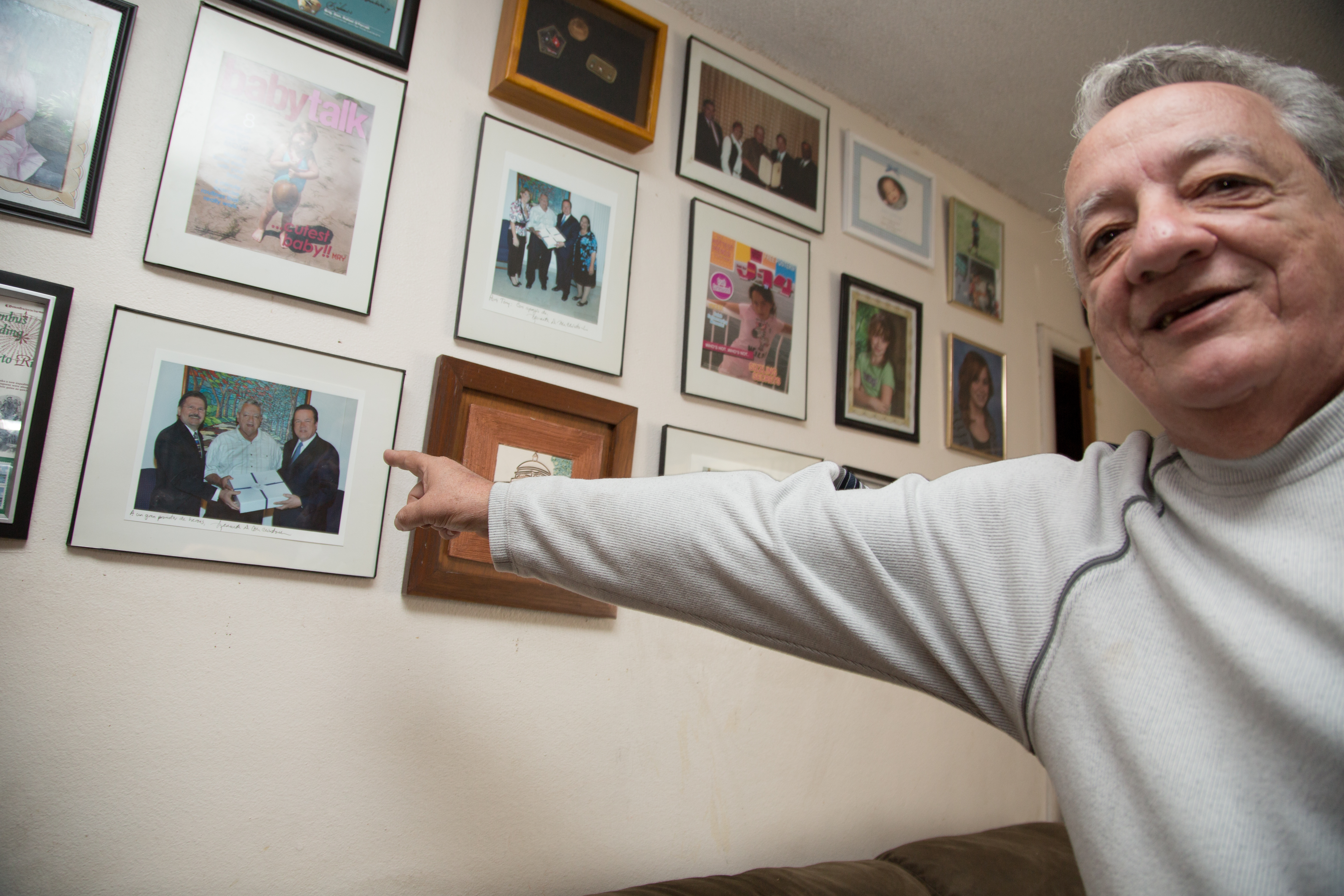 Tony The Marine